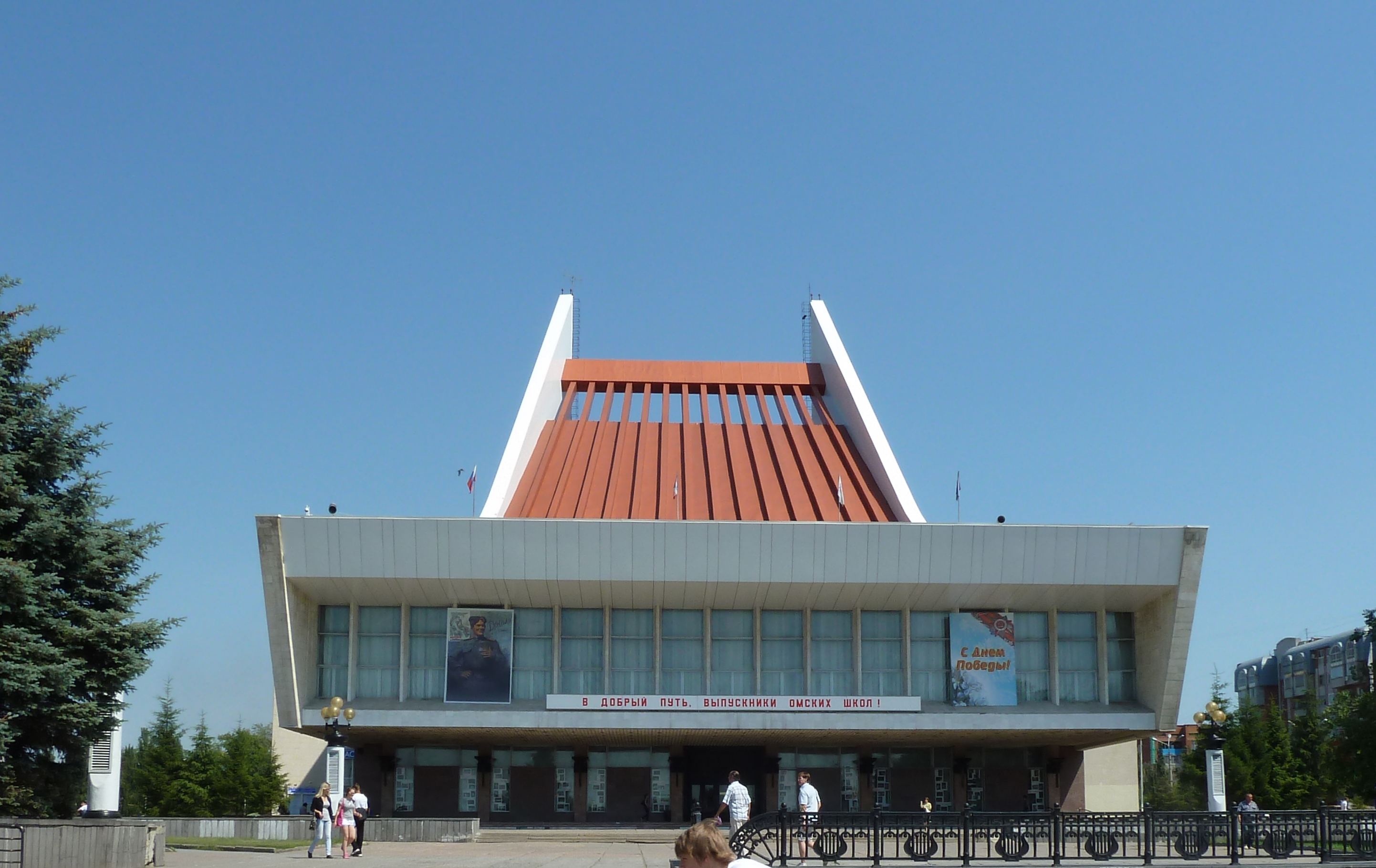 Omsk State Musical Theater